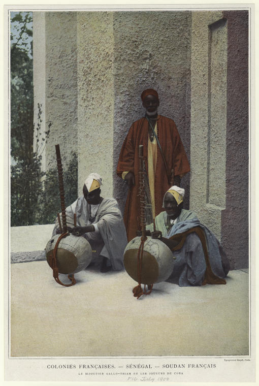 Jeweller Gallo Thiam and kora players